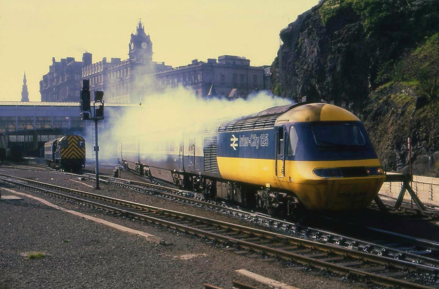 A British Rail Class 43 Leaving Edinburgh